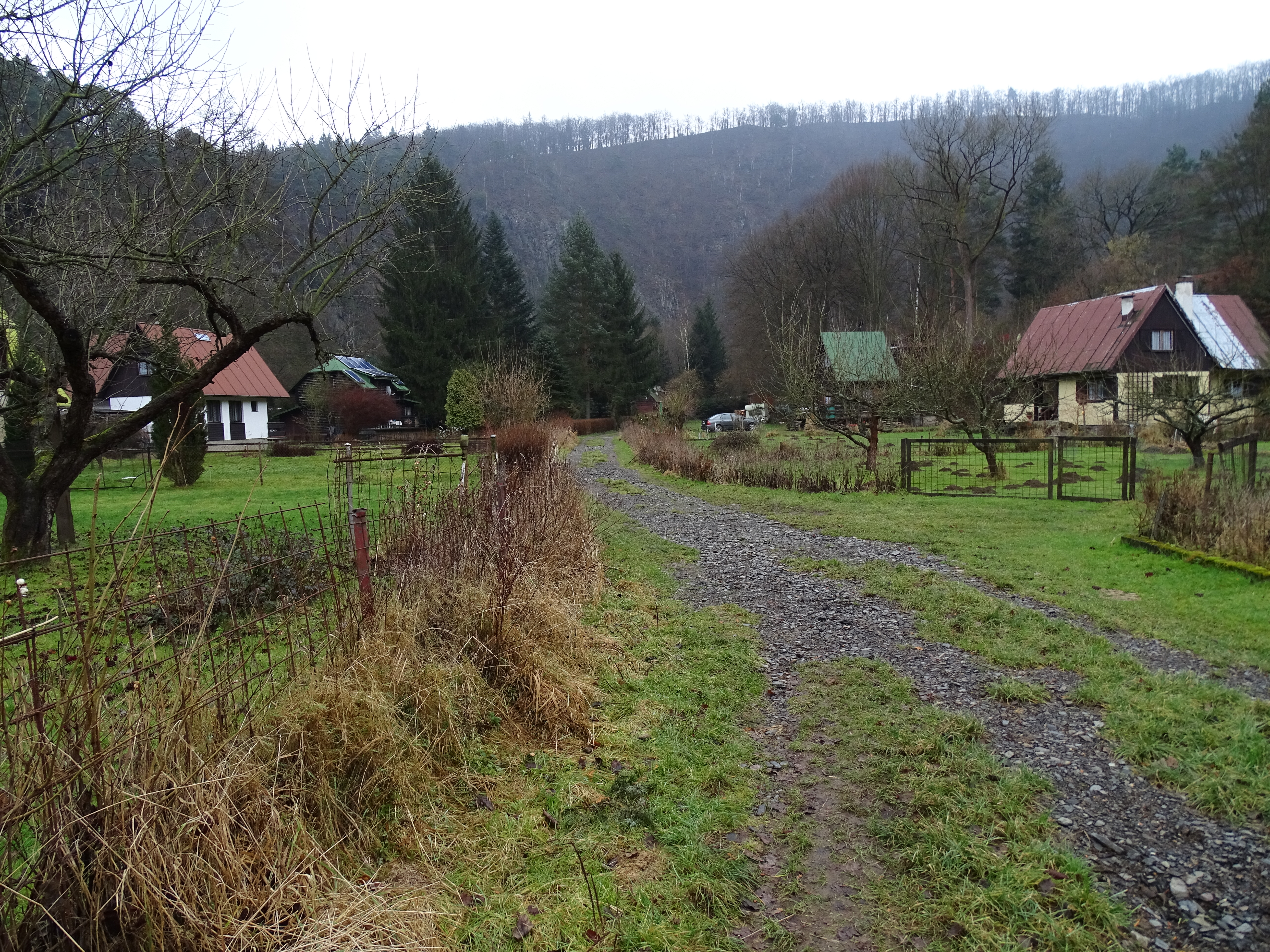 Bojanovice, Prague-West District, Central Bohemian Region, Czech Republic. A valley of the Kocába river.